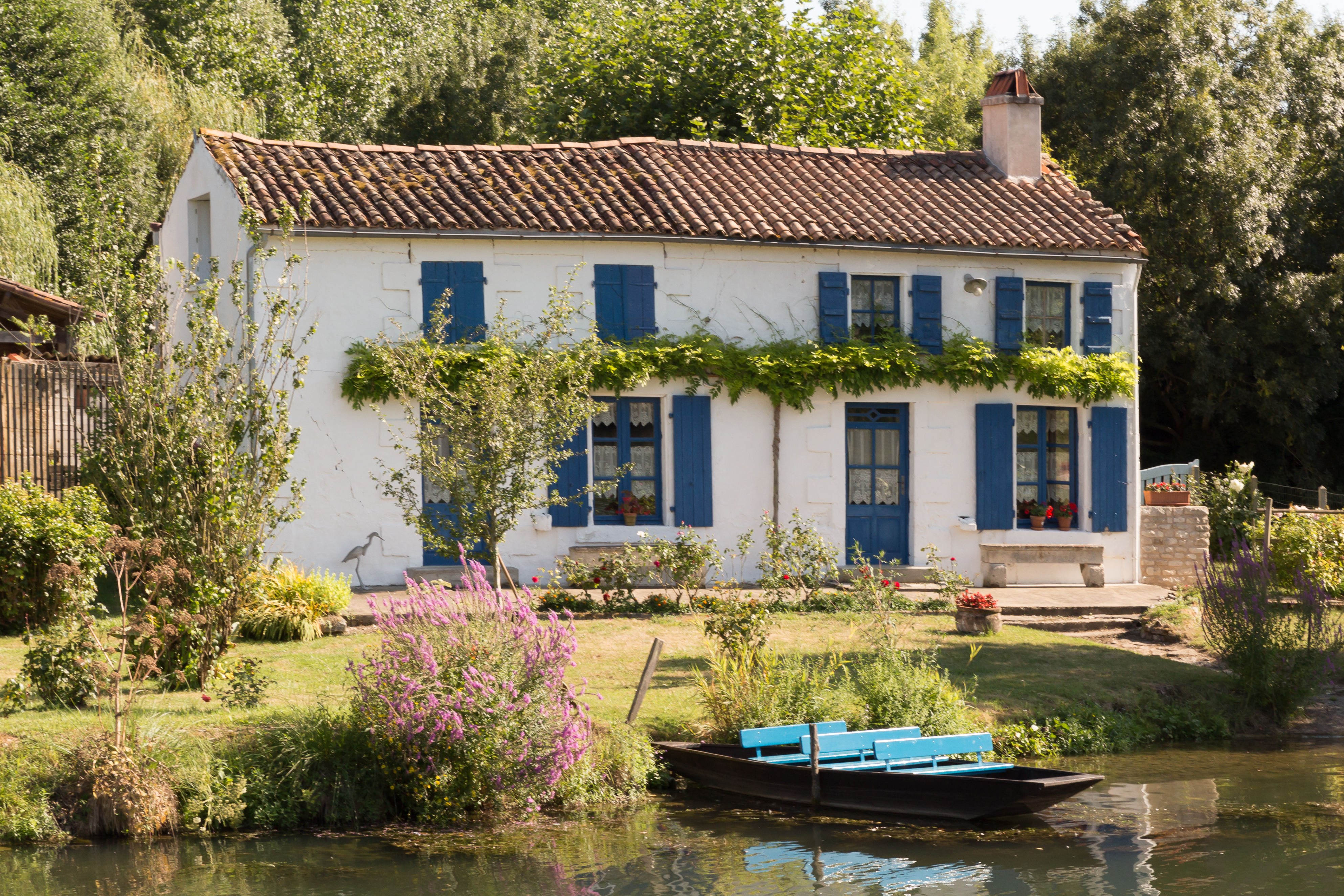 House at Sansais in the Marais poitevin, France.